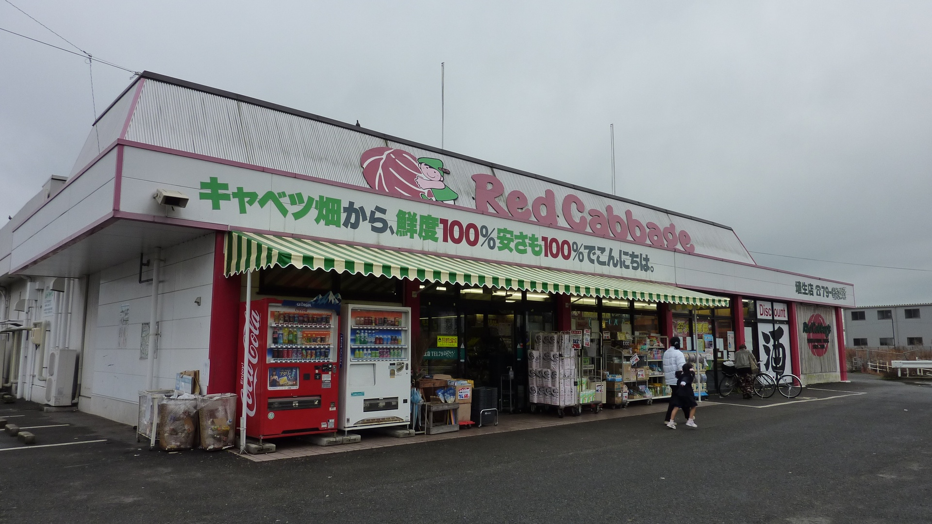 Suparmarket "Red Cabbage" Habu Store (Sanyo-onoda City, Yamaguchi, Japan)